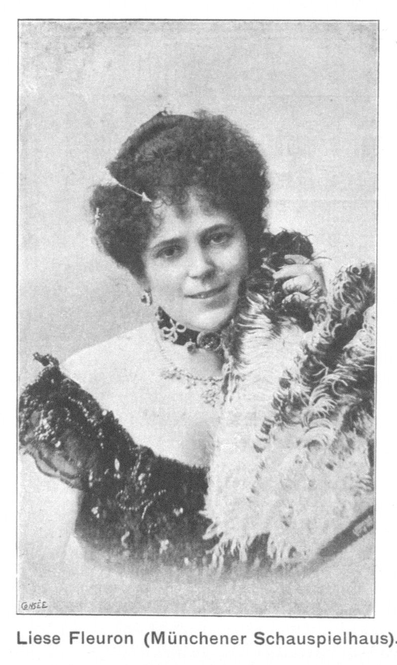 Photograph of Liese Fleuron (1875-??), Austrian actress and singer.